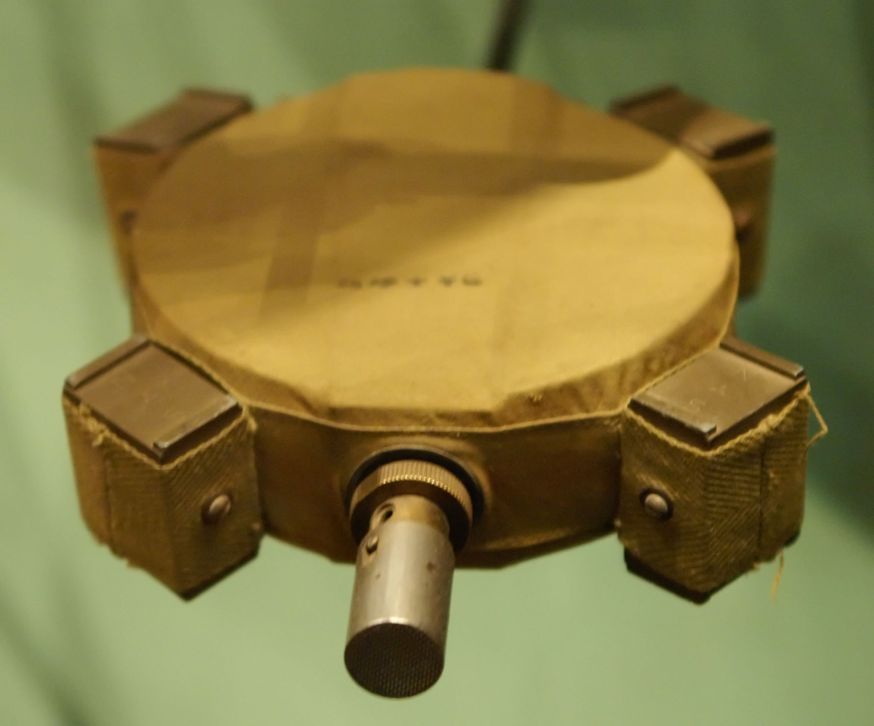 A Japanese Type 99 anti-tank mine from the Second World War, at the Imperial War Museum in London.